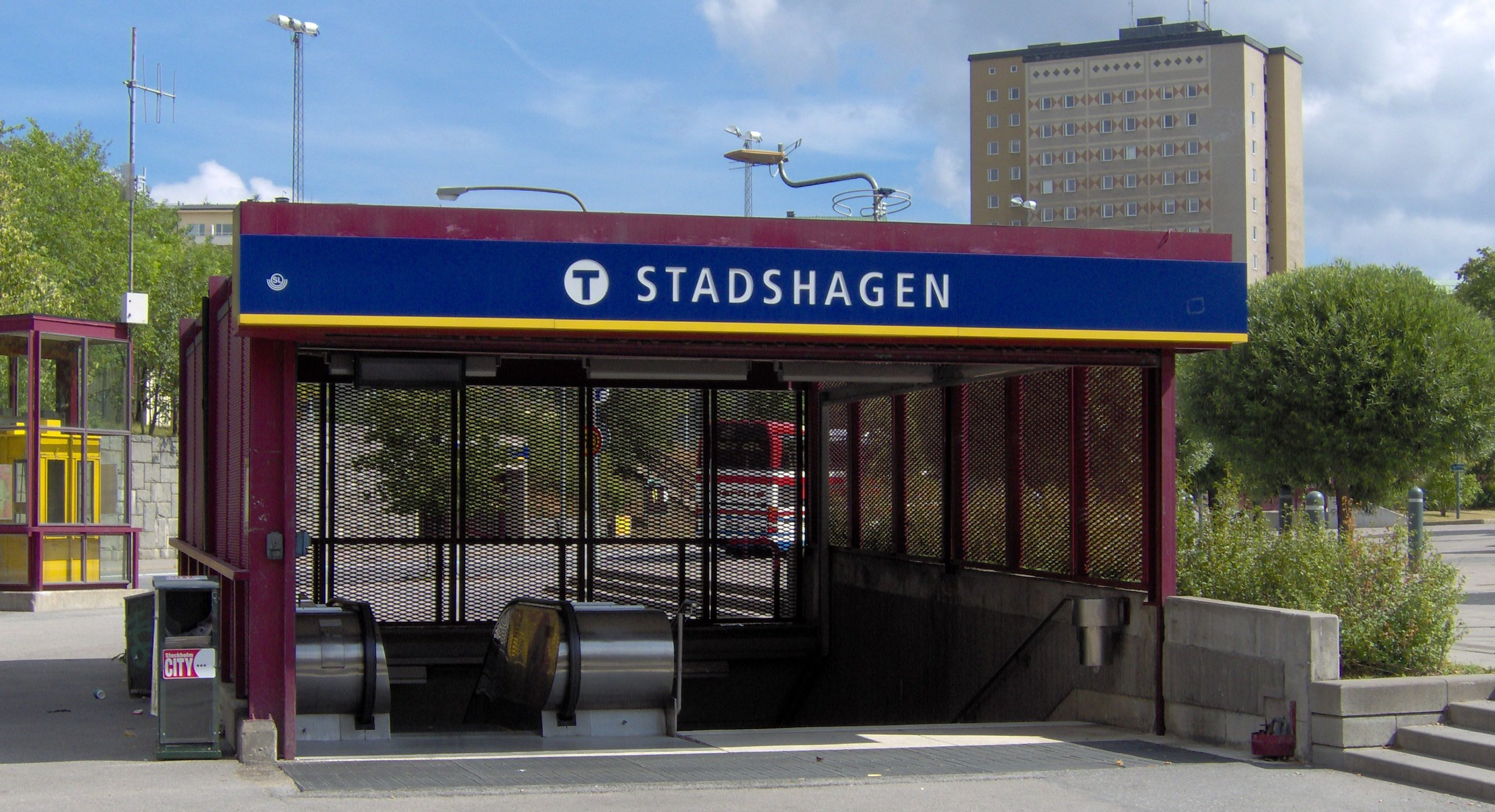 Entrance to the Stockholm metro station Stadshagen.